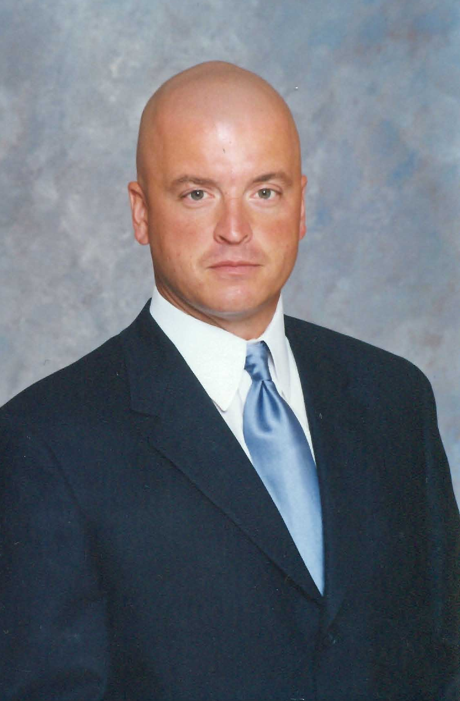 Image of Robby Wells